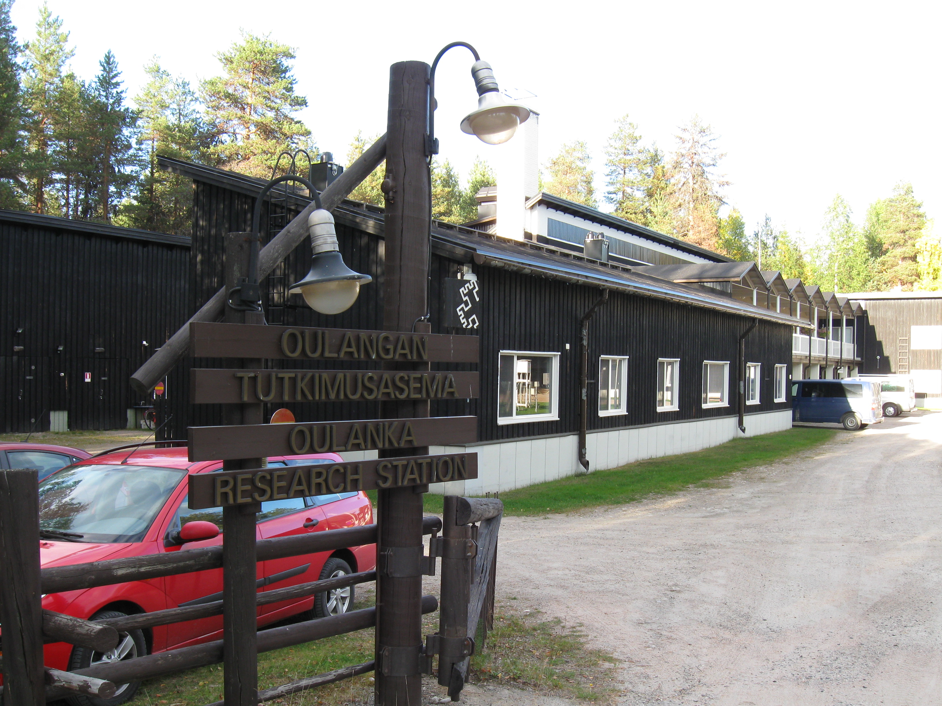 The research station of the University of Oulu, located in Oulanka, Kuusamo, Finland.